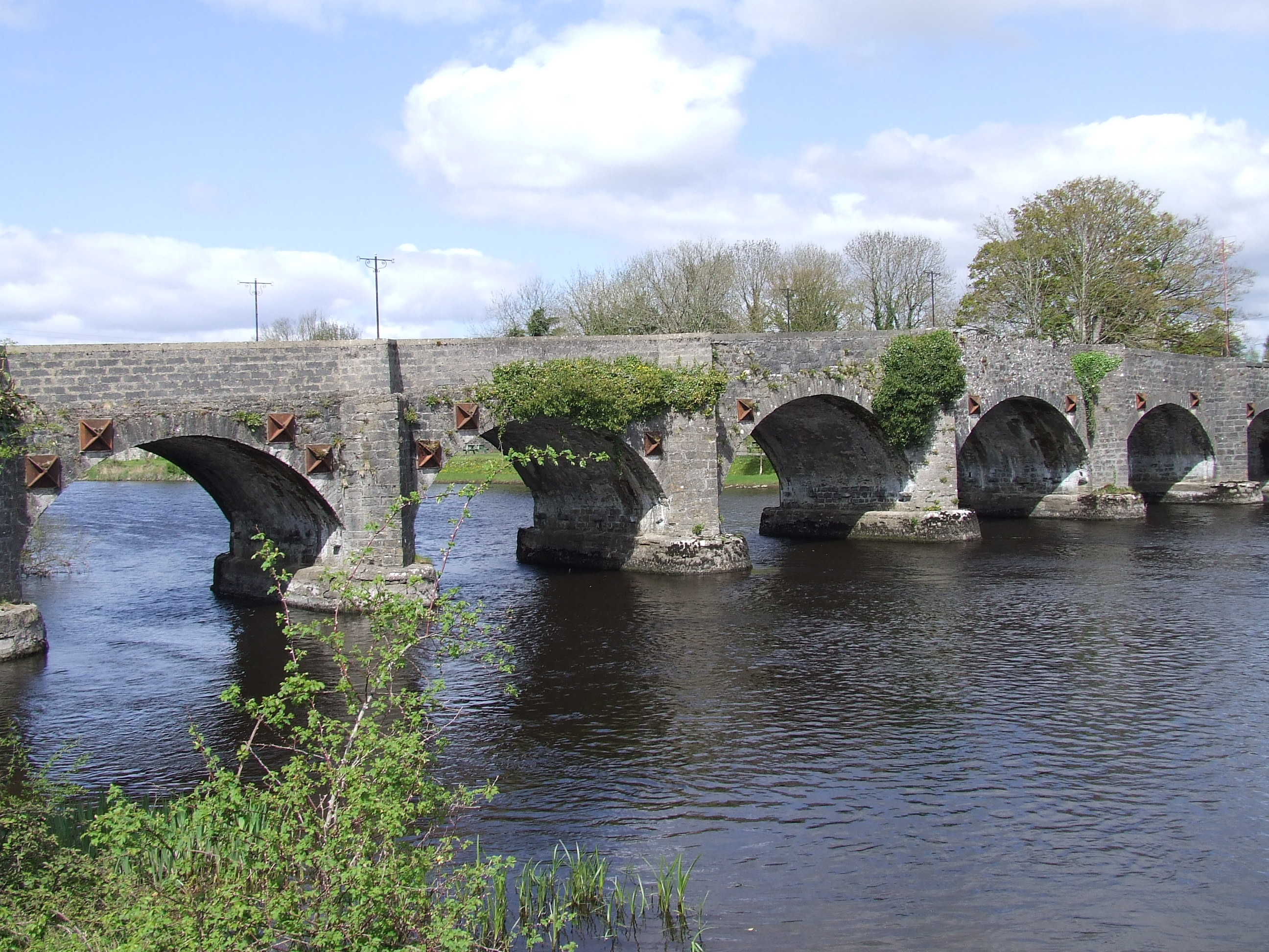 Stone bridge at Drumsna, County Leitrim viewed from the Roscommon side of the Shannon.